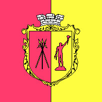 Festive banners Dniprodzerzhinsk